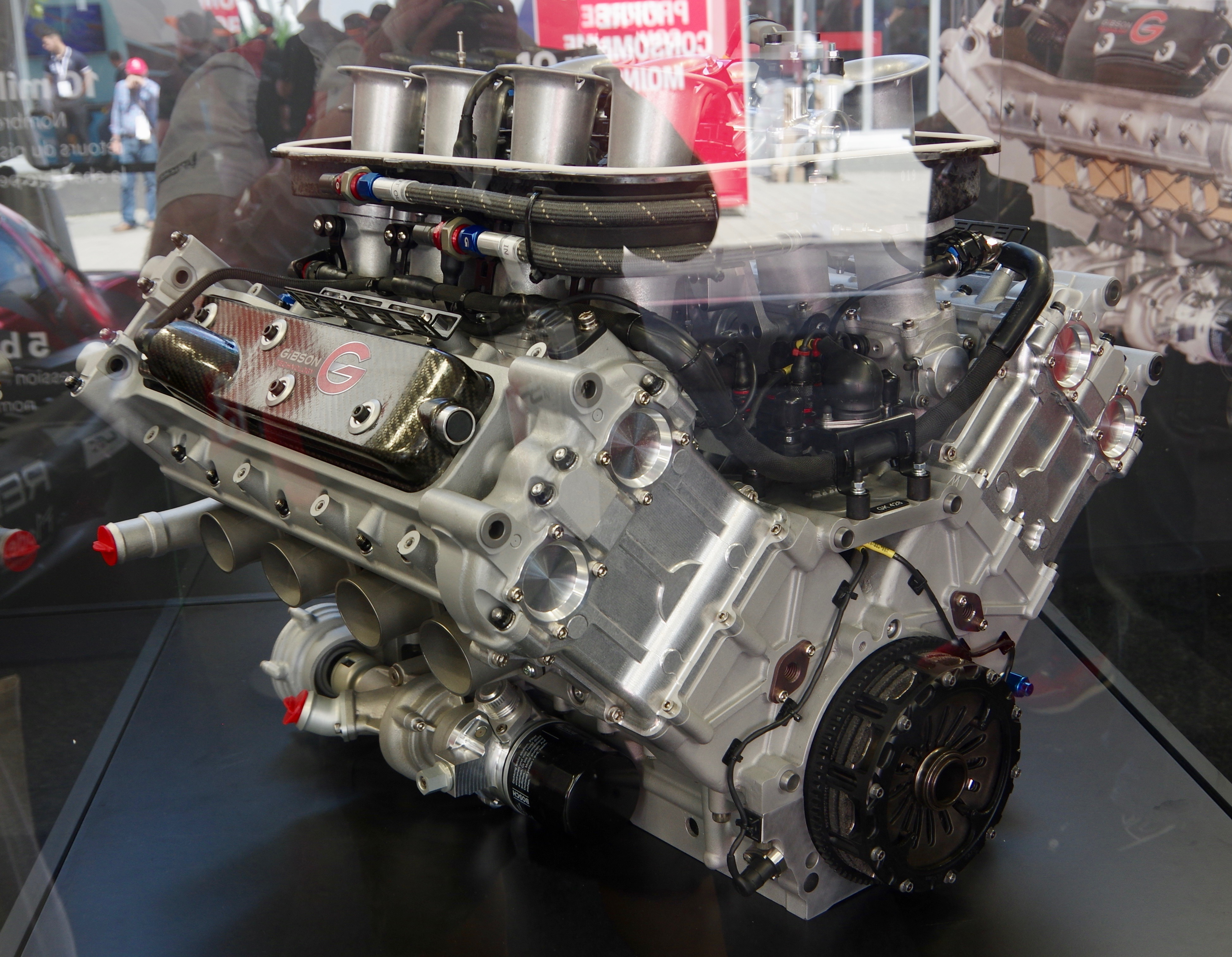 Gibson Technology GL458 of Rebellion R13